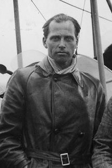 Archduke Anton of Austria in the Challenge International de Tourisme 1930, in Warsaw